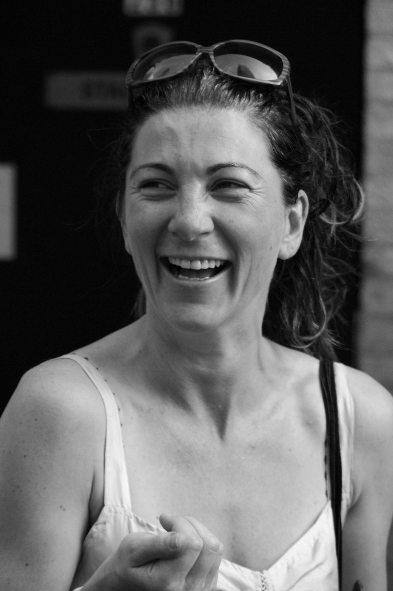 Stage actress Eve Best, after performing in A Moon for the Misbegotten in NYC.